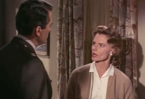 Gregory Peck & Bethel Leslie in Captain Newman, M.D. - trailer (cropped screenshot)